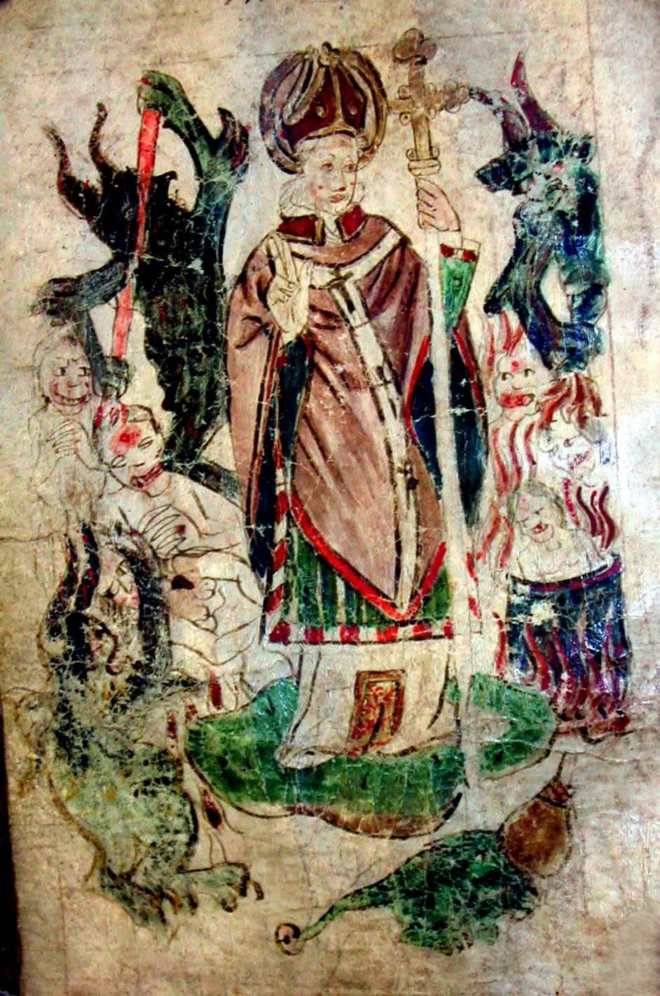 Drawing showing St. John of Bridlington in St. Patrick's Purgatory, illustrating a 15th-century Middle English prose text of The Vision of William of Stranton, MS Royal 17 B xliii at British Library. Short description by H. L. D. Ward: Preceded by a rude coloured drawing of a sainted Bishop in the act of benediction, surrounded by Fiends and by Souls in torment (f. 132 b). See H. L. D. Ward: Catalogue of Romances in the Department of Manuscripts in the British Museum, Volume II, London 1893.